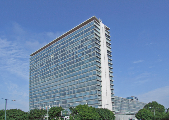 Tolworth Tower, Ewell Road, Kingston-upon-Thames, Surrey, England, seen from Tolworth Rise South